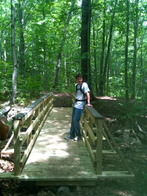 Menunkatuck Blue-Blazed (CFPA) Trail. Bridge on the Menunkatuck Trail in the Guilford Cockaponset forest north of Connecticut Route 80. The Eagle (Boy Scout) stands on his Eagle project.